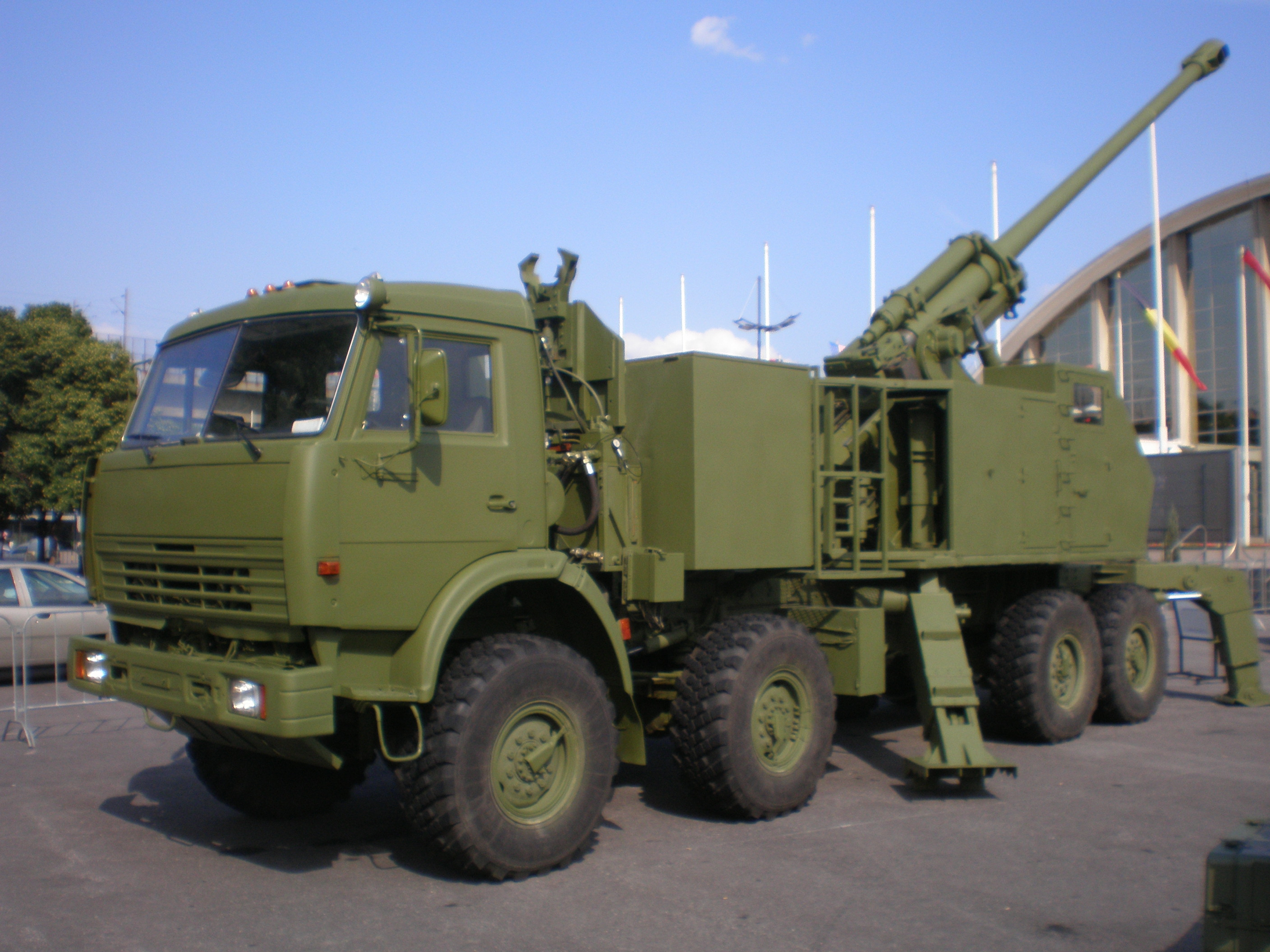 Nora B-52 self-propelled gun-howitzer on display at "Partner 2009" military fair.